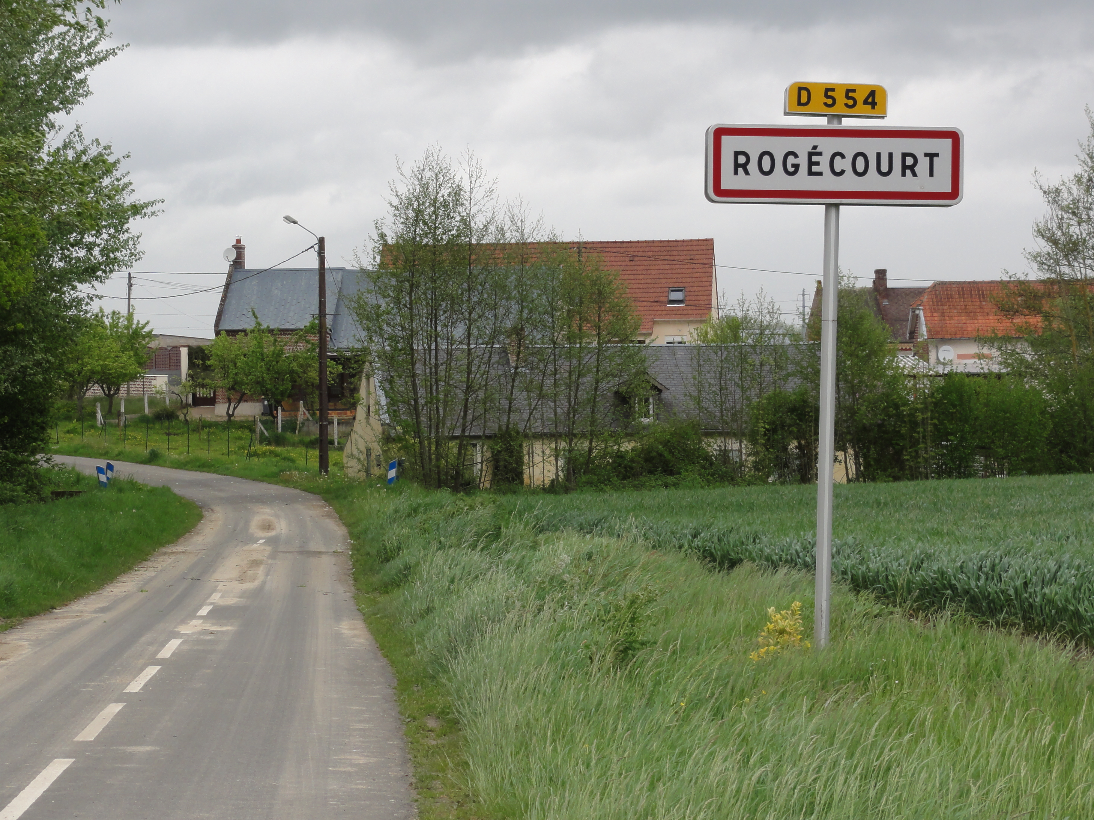 Rogécourt (Aisne) city limit sign